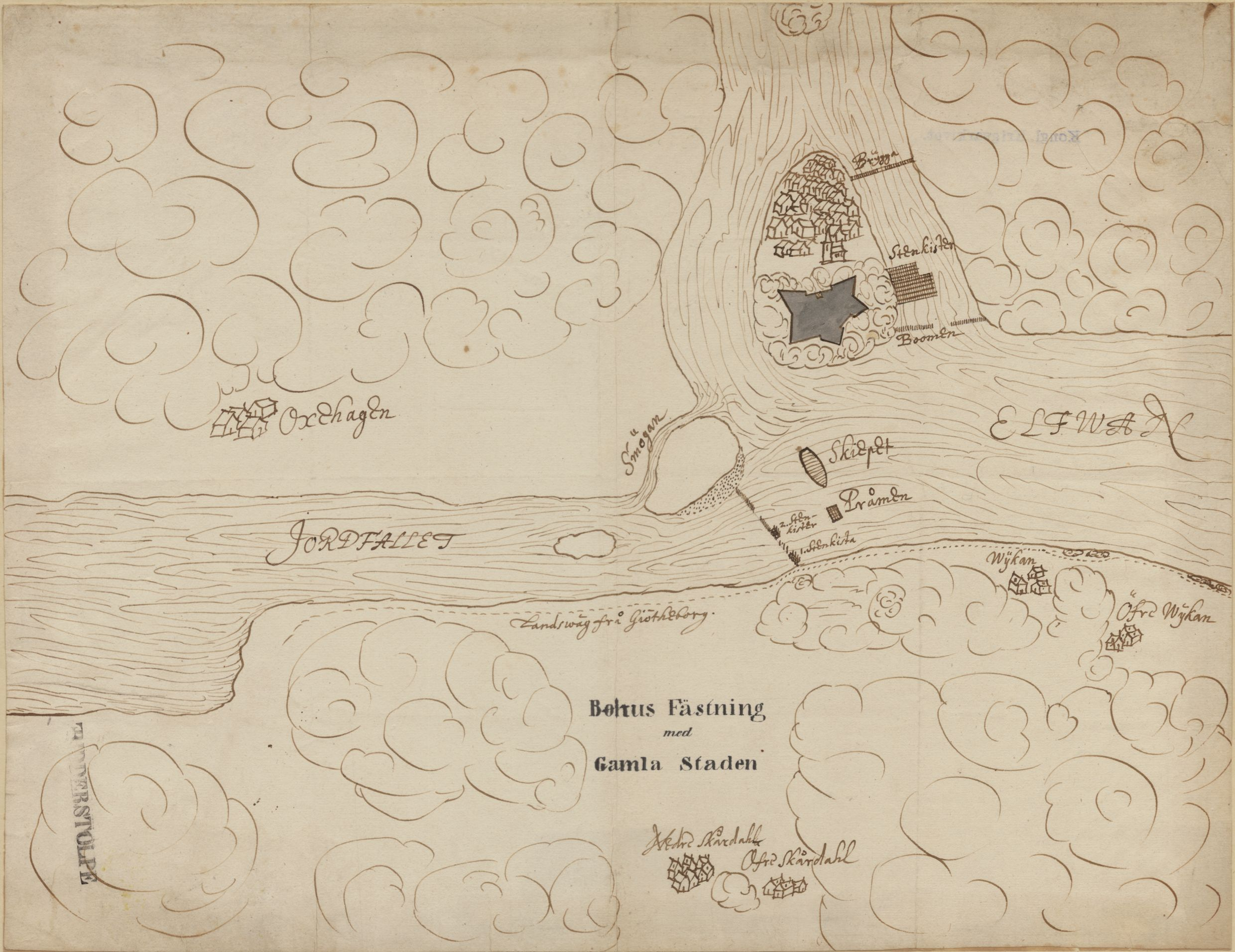 Map of outer defenses around Bohus castle year 1645.